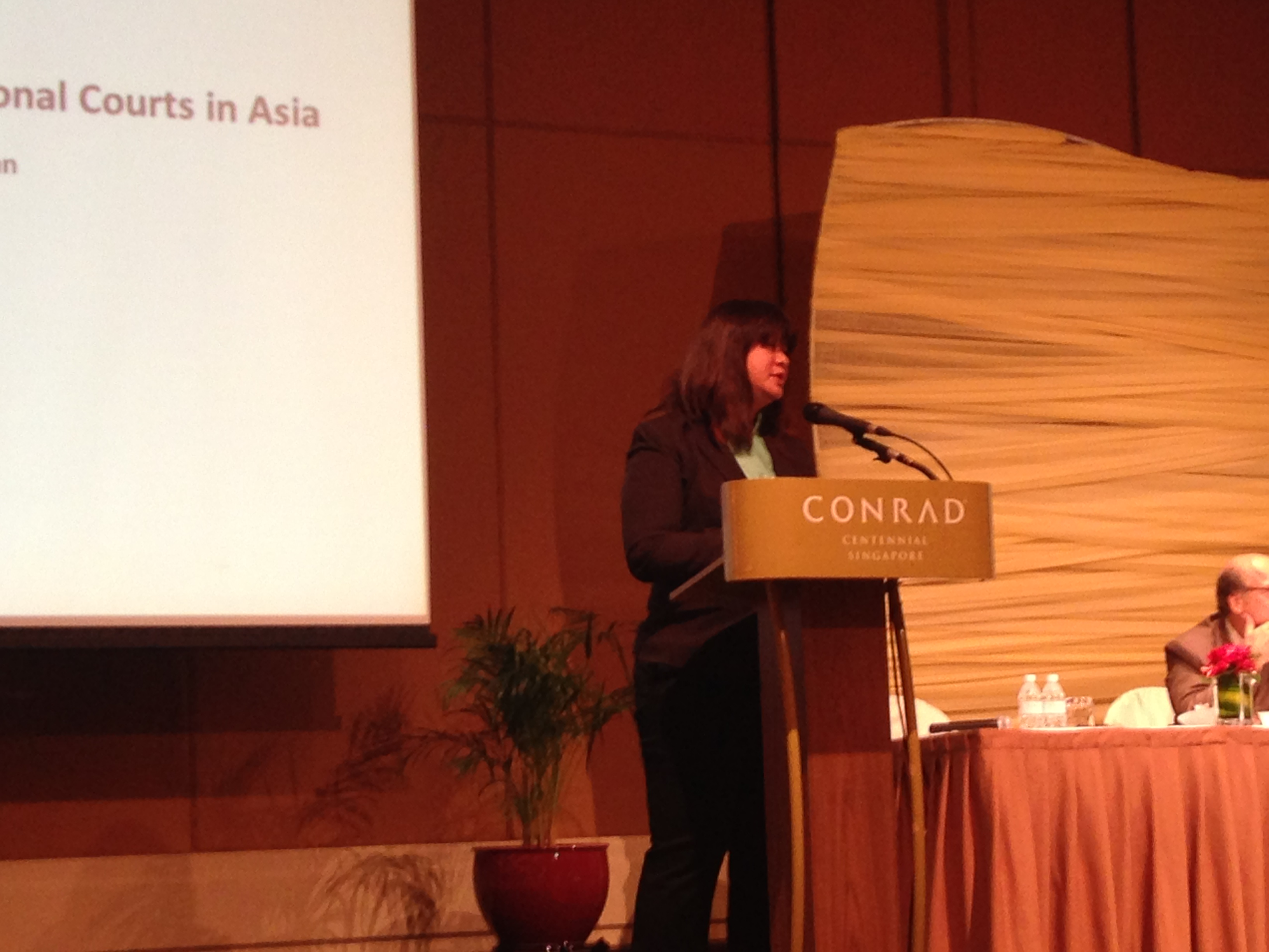 Dr. Thio Li-ann, a professor at the Faculty of Law, National University of Singapore, speaking at a seminar marking Human Rights Day organized by the Delegation of the European Union to Singapore entitled The Role of the Judiciary in the Promotion and Protection of Human Rights at the Conrad Centennial Singapore.